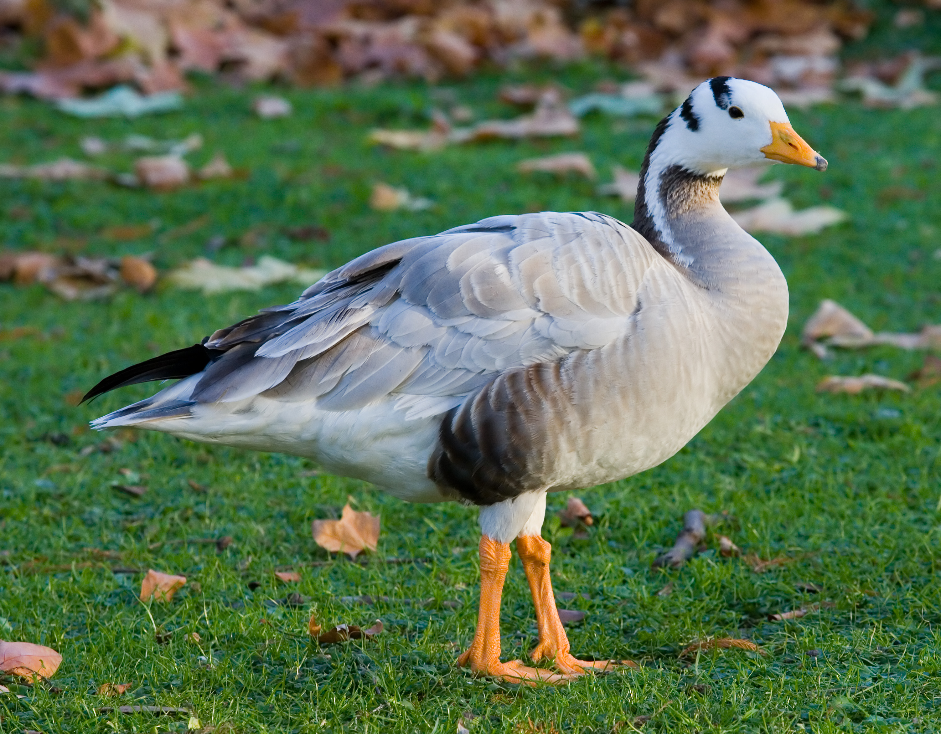 A Bar-headed Goose in St James's Park, London, England. Taken with a Canon 5D and 70-200mm f/2.8L lens.